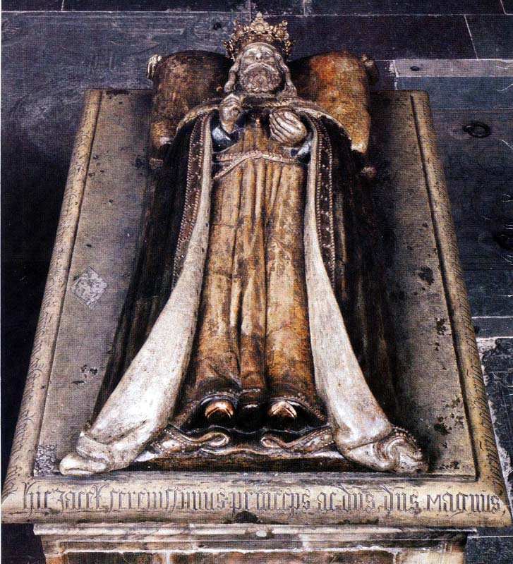 Grave of King Magnus III Barnlock of Sweden as sculpted by Lucas van der Werdt in 1574Place: Riddarholm Church, Stockholm, Sweden